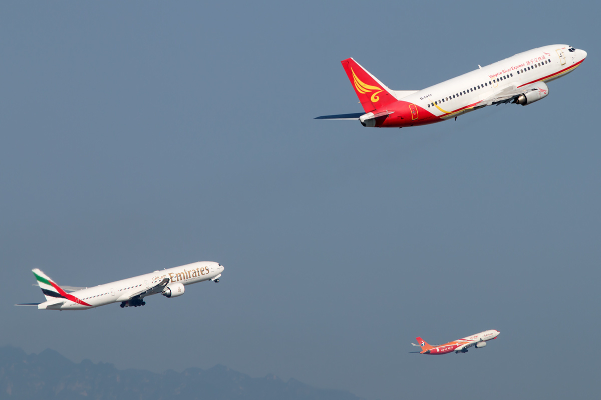 Three aircraft take off at Beijing Capital International Airport from parallel runways -- Yangtze River Express Boeing 737-300QC, Emirates Boeing 777-300ER, China Eastern Airlines Airbus A330